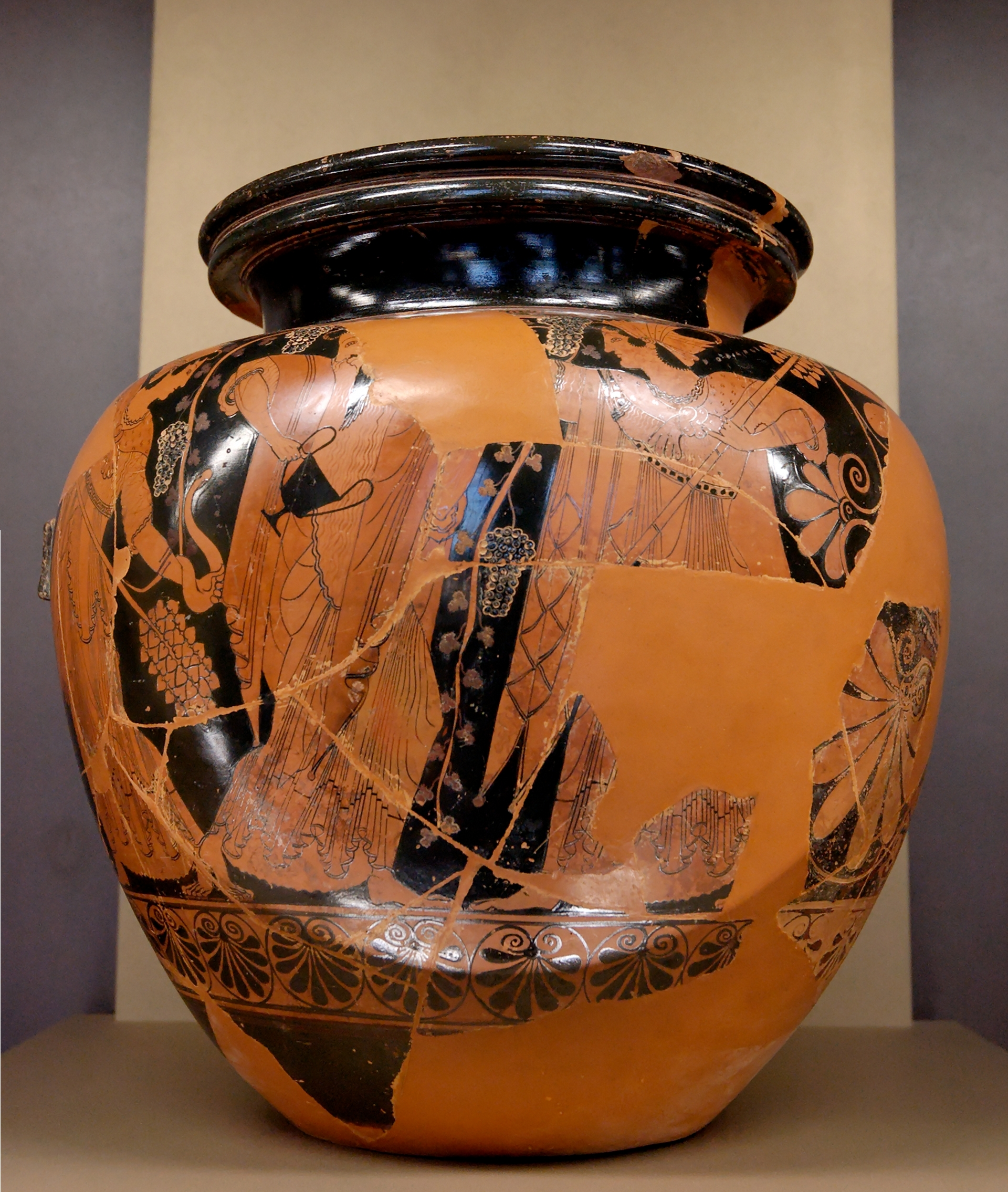 Maenads and Dionysos holding a kantharos. Attic red-figure stamnos, ca. 520–510 BC.